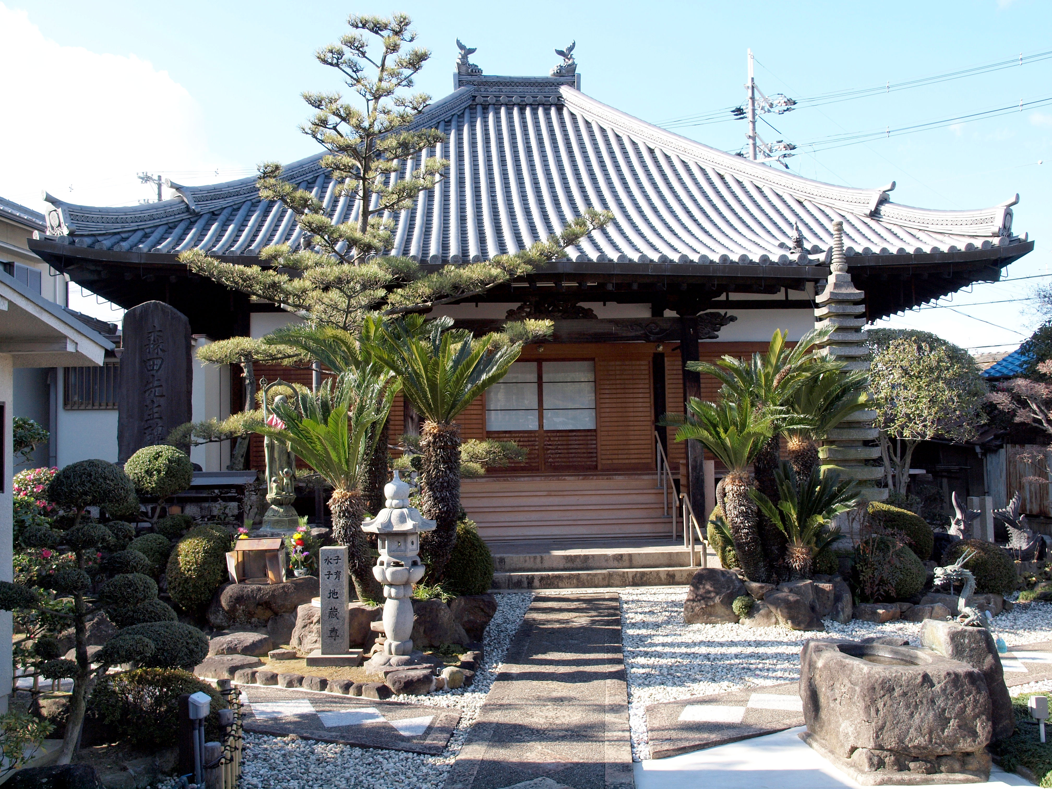 Tsuboi-dea (Temple) in Kashiwara, Osaka